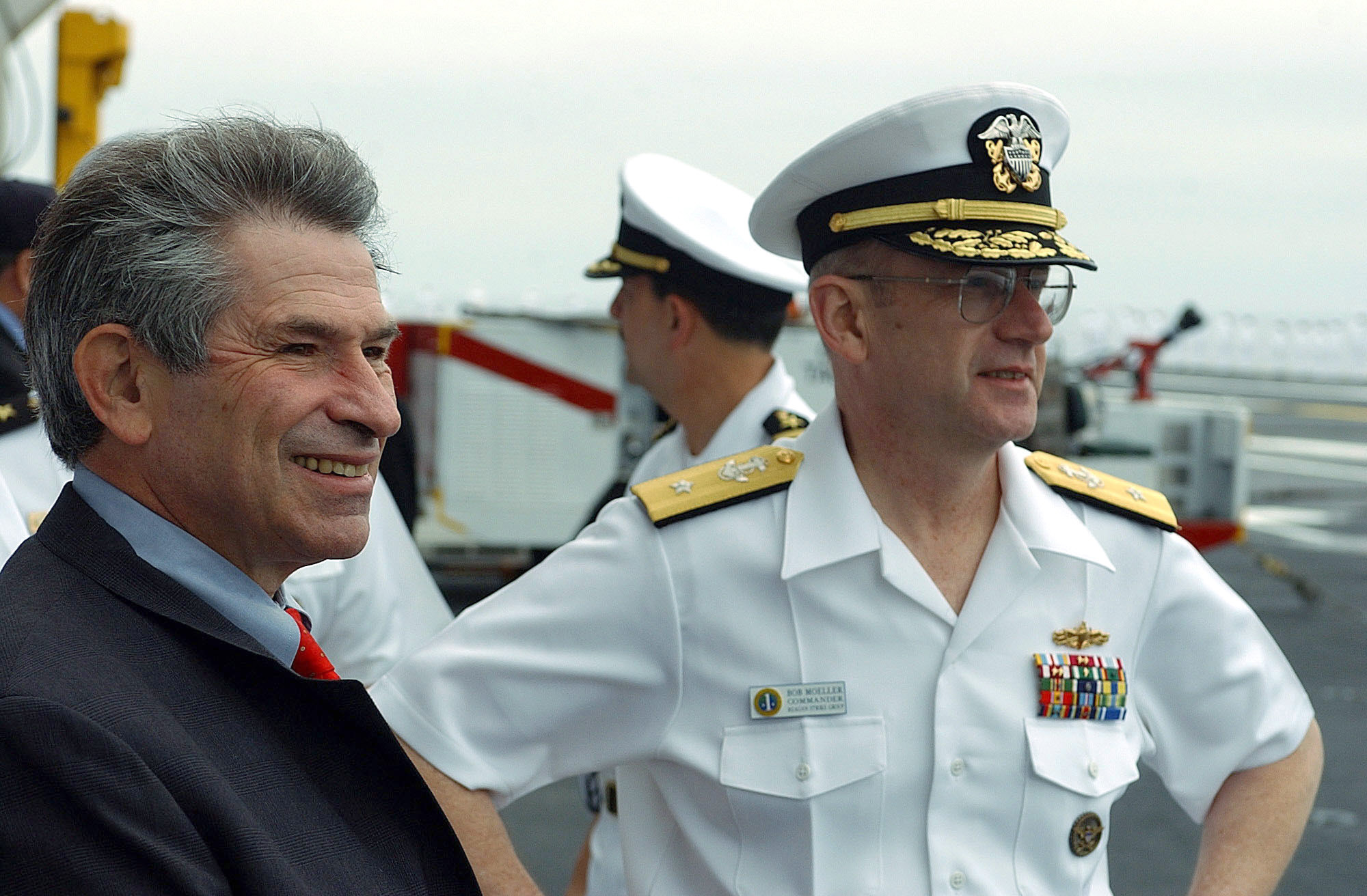 The Honorable Paul Wolfowitz (left) Deputy Secretary of Defense (DEPSECDEF) and US Navy (USN) Rear Admiral (RADM) (upper half) Robert Moeller, Commander Ronald Reagan Strike Group, wait on the flight deck of the USS RONALD REAGAN (CVN 76) for the arrival of dignitaries to celebrate the ship's homecoming. The aircraft carrier arrived in its new homeport of Naval Air Station North Island (NASNI), California (CA), after a two month voyage around the tip of South America and participating in exercises in support of SUMMER PULSE 2004 with South American Naval forces.